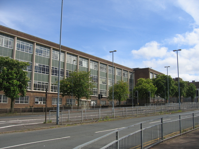 Offices, Longbridge car works. The former Rover offices alongside Lickey Road near the junction with Bristol Road South.